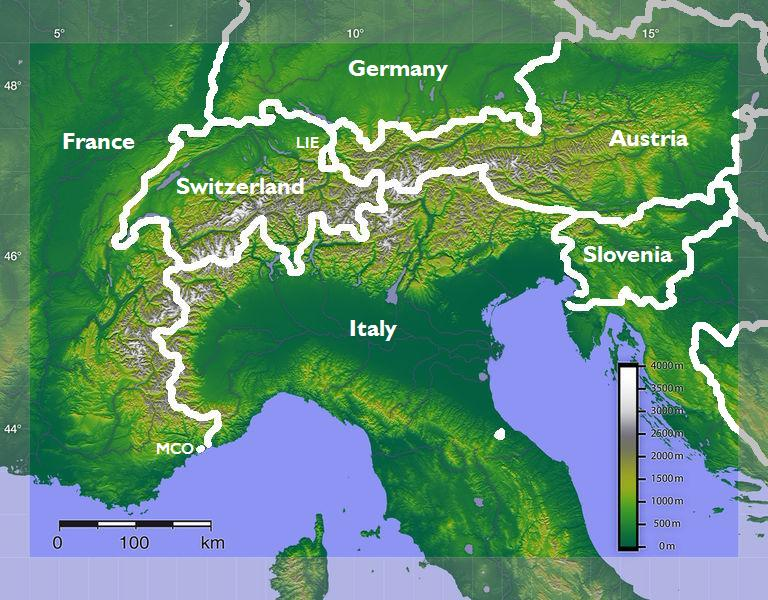 Map of the Alps with national borders added